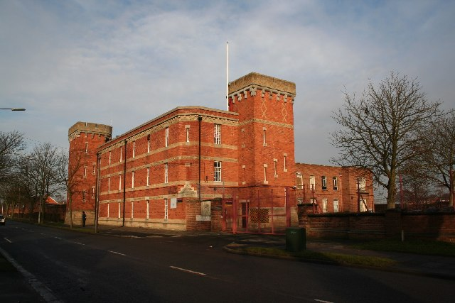 Sobraon Barracks. Once home to the Lincolnshire Regiment, now a TA base